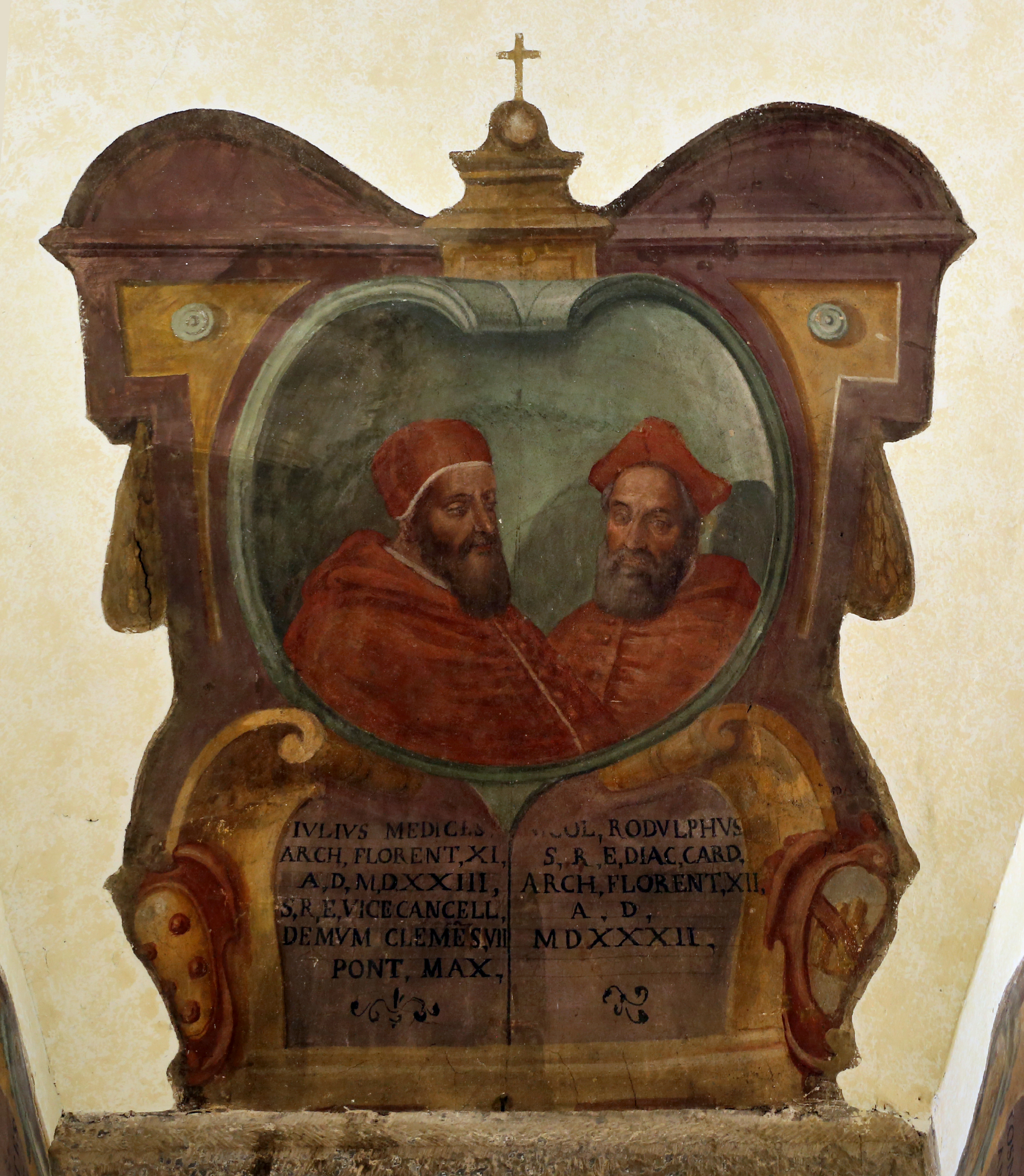 Palazzo Arcivescovile (Florence)